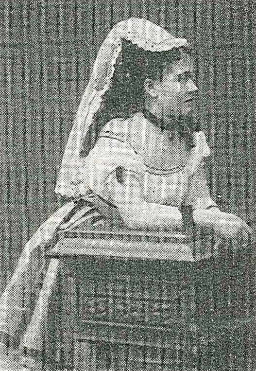 Carolina Östberg (1853-1929), Swedish opera singer and singing teacher; seen here as Adina in L'elisir d'amore (Swedish: Kärleksdrycken) by Gaetano Donizetti.